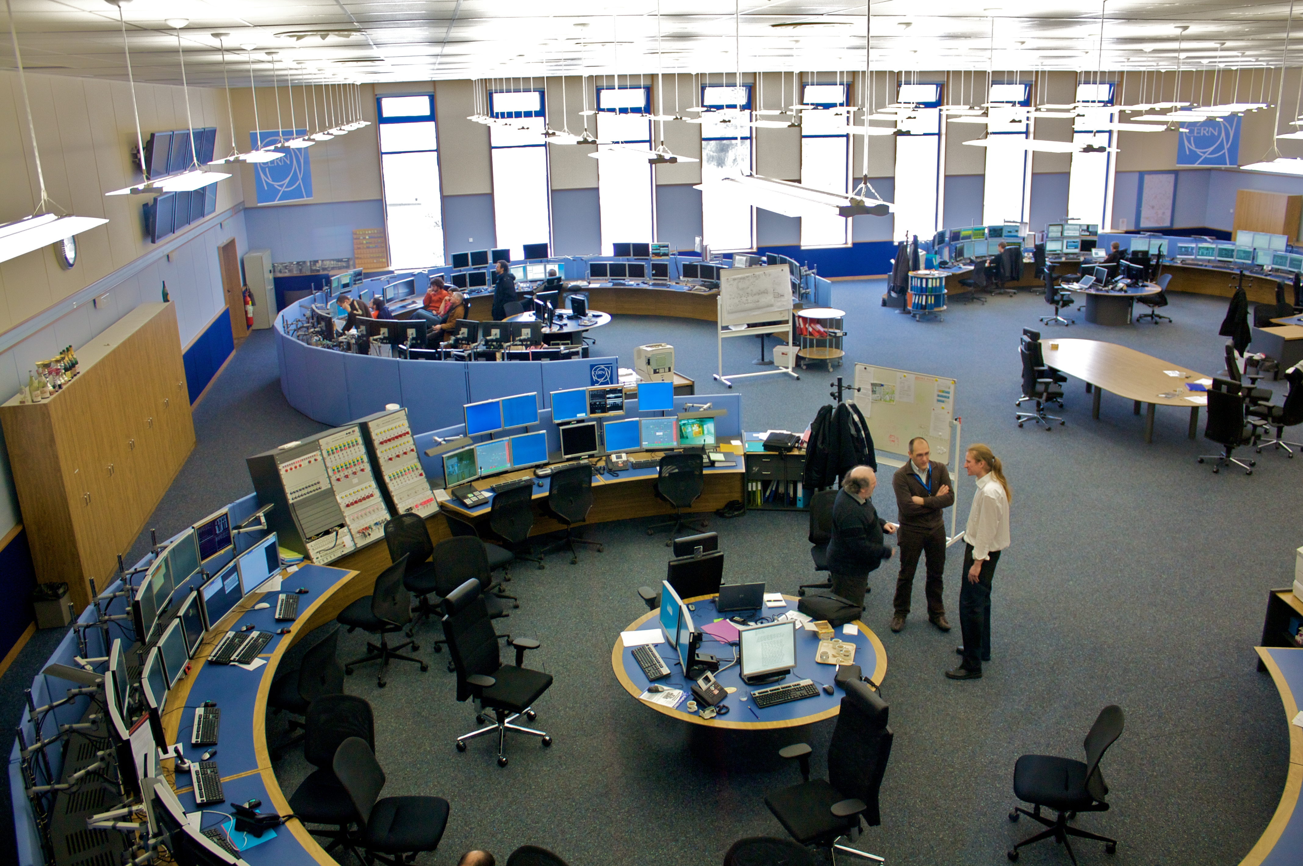 CERN Control Center (CCC).